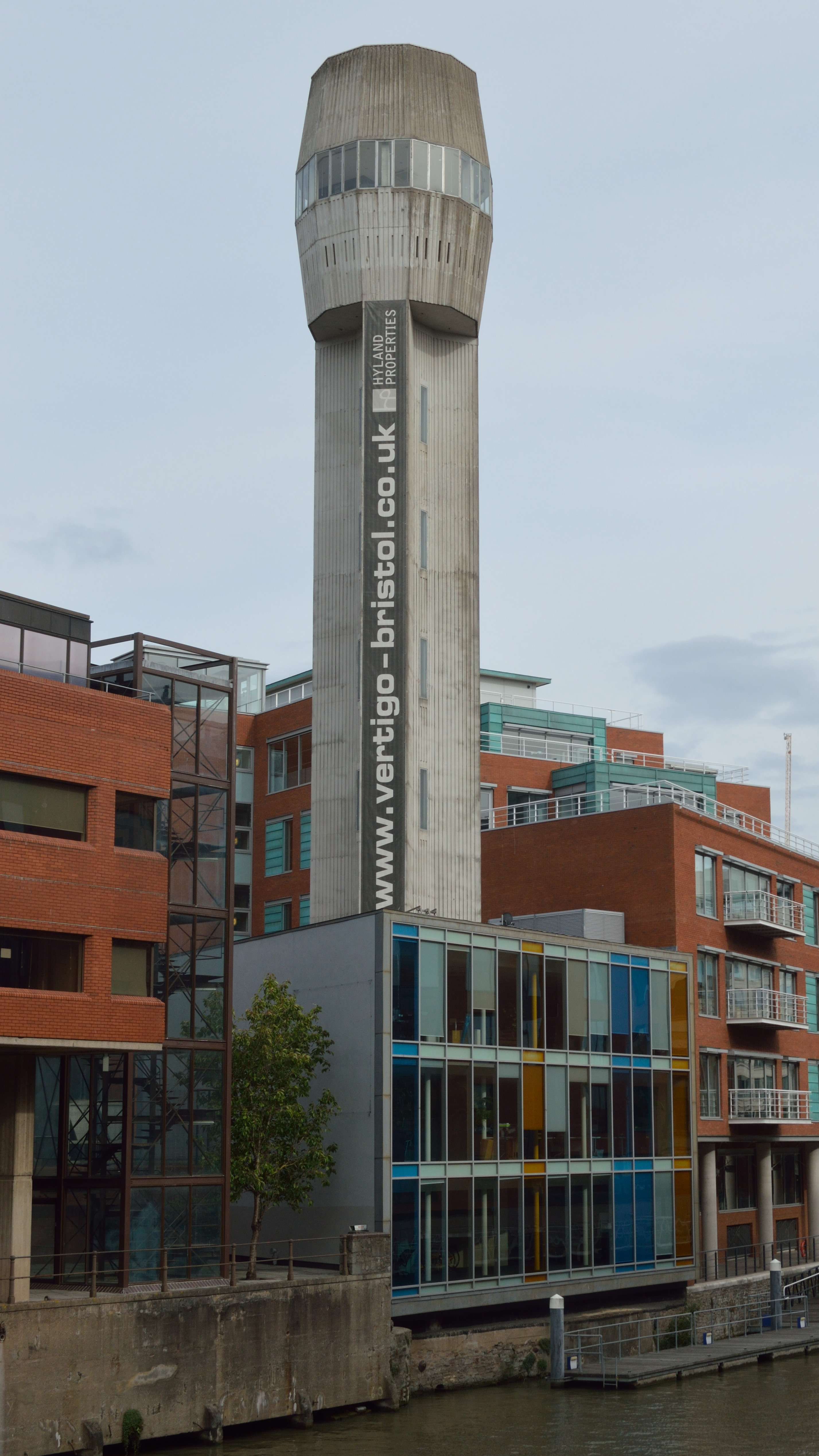 Cheese Lane shot tower, Bristol. No longer in use for lead production, and listed Grade II as "Sheldon Bush and Patent Shot Company Limited".